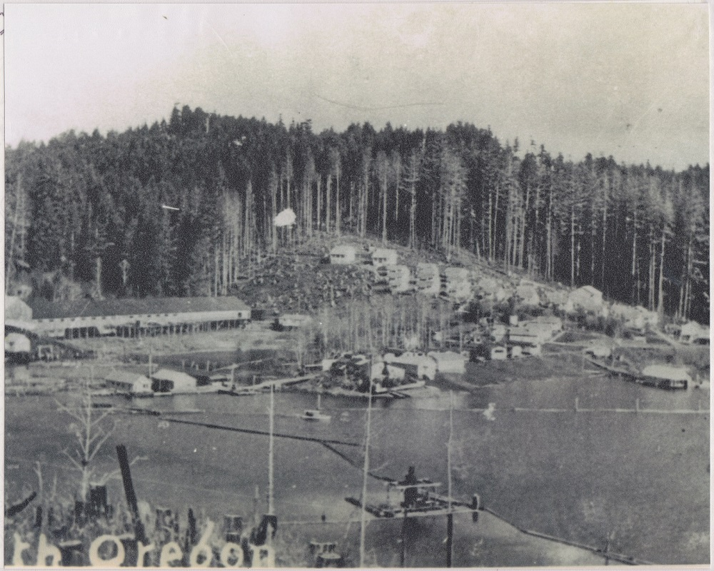 Booth logging mill on Siltcoos Lake, Oregon